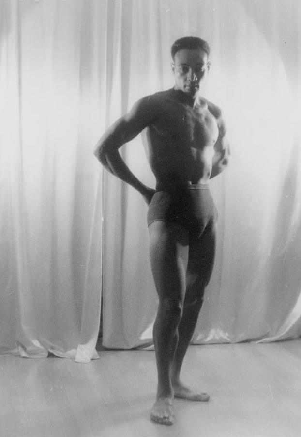 Title: Portrait of Al Bledger Physical description: 1 photographic print : gelatin silver. Notes: Title derived from information on verso of photographic print.; Van Vechten number: VII M 15.; Also available on microfilm.; Gift; Carl Van Vechten Estate; 1966.; Forms part of: Portrait photographs of celebrities, a LOT which in turn forms part of the Carl Van Vechten photograph collection (Library of Congress).